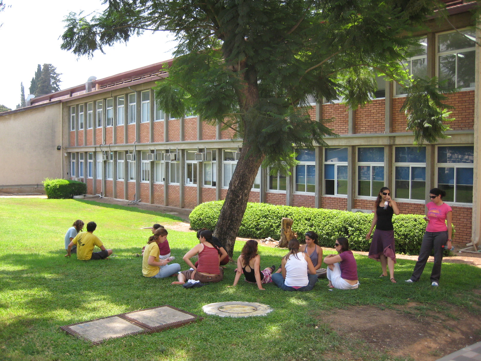 Enjoying a break on the lawn behind the Economics Building